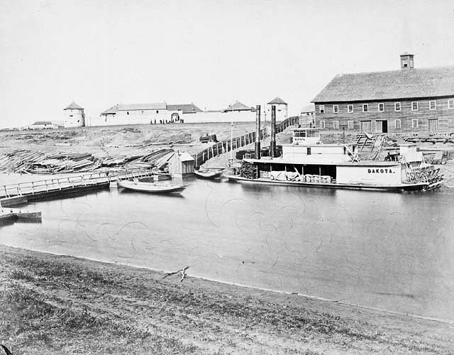 Upper Fort Garry in the early en:1870s, circa 1872 / Fort Garry, Manitoba Credit: Topley / Library and Archives Canada / PA-011337